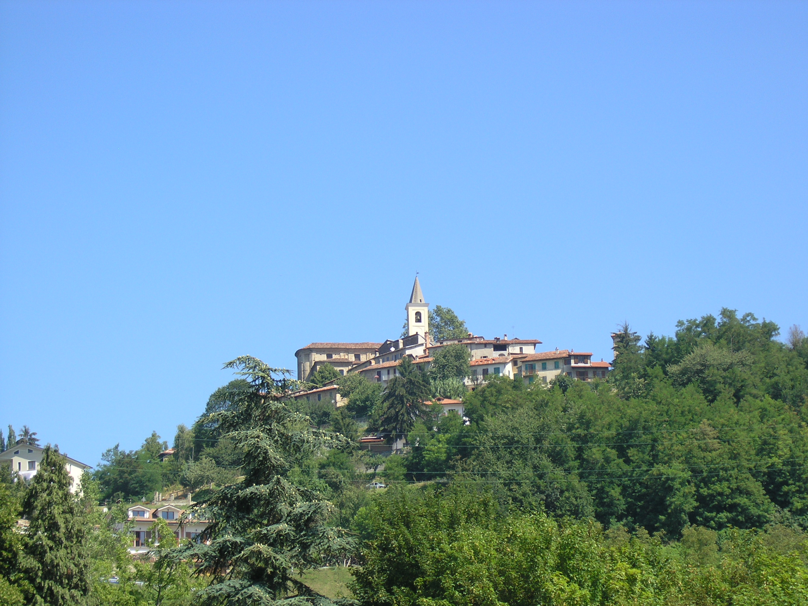 Landscape of Sale San Giovanni (Italy)